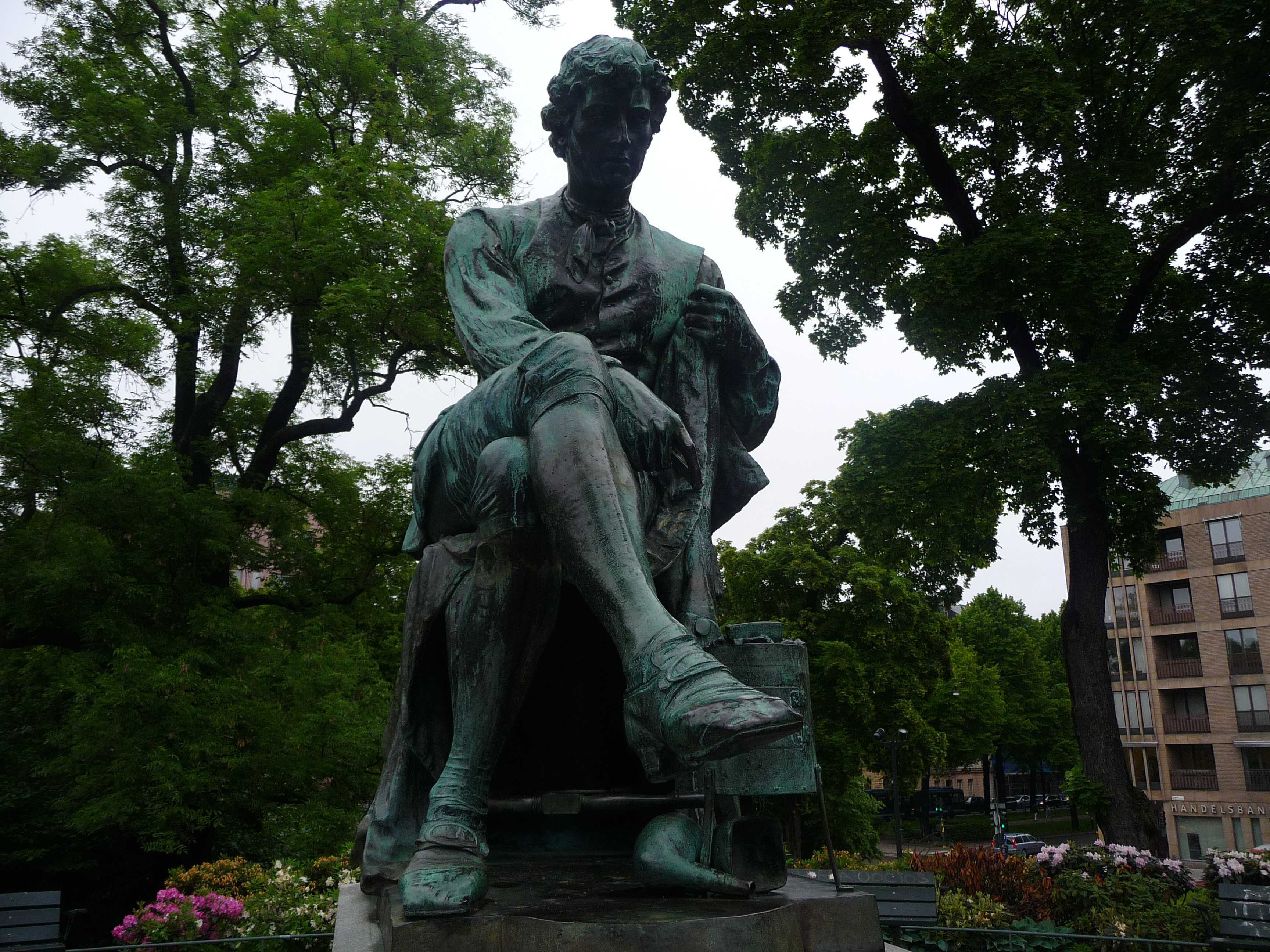 Statue of Carl Vilhelm Scheele by John Börjeson in Humlegården, Stockholm.